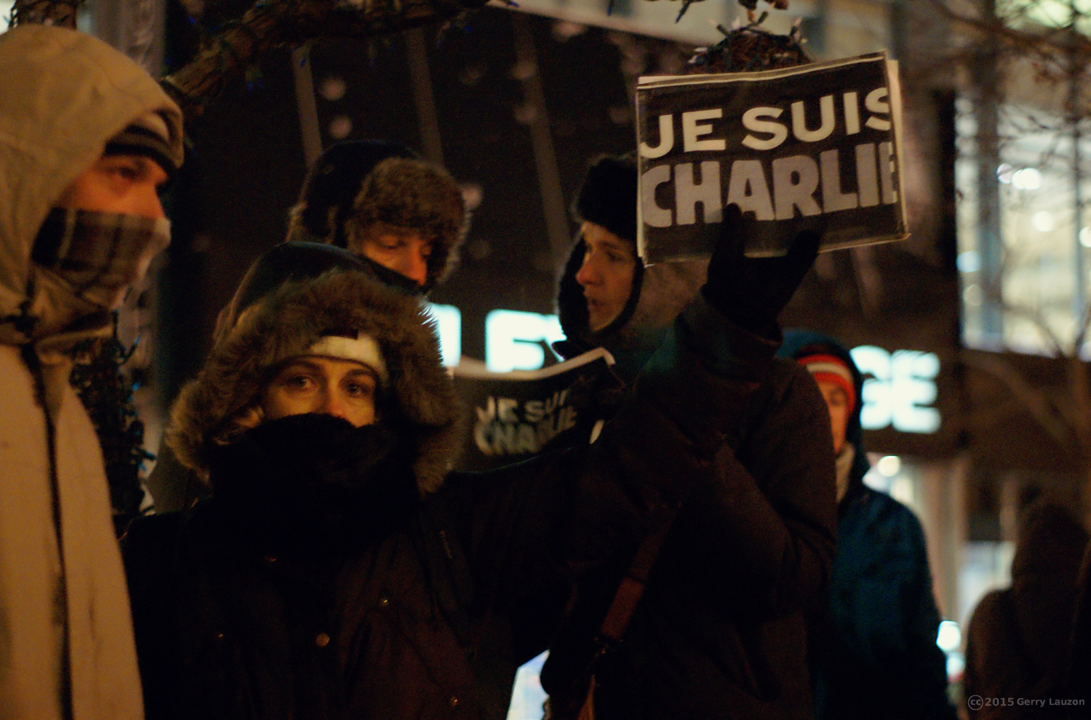 Taken at the vigil in front of the French consulate in Montreal on a -26C evening. Je suis Charlie. Montreal rally in support of the victims of the 2015 Charlie Hebdo shooting